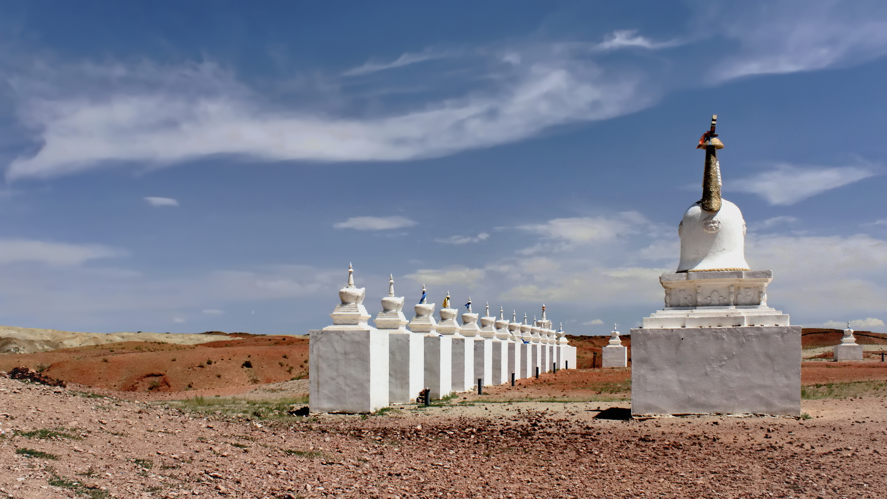 Stupas in Shambhala complex. Gobi Desert, Dornogovi Province, Mongolia.